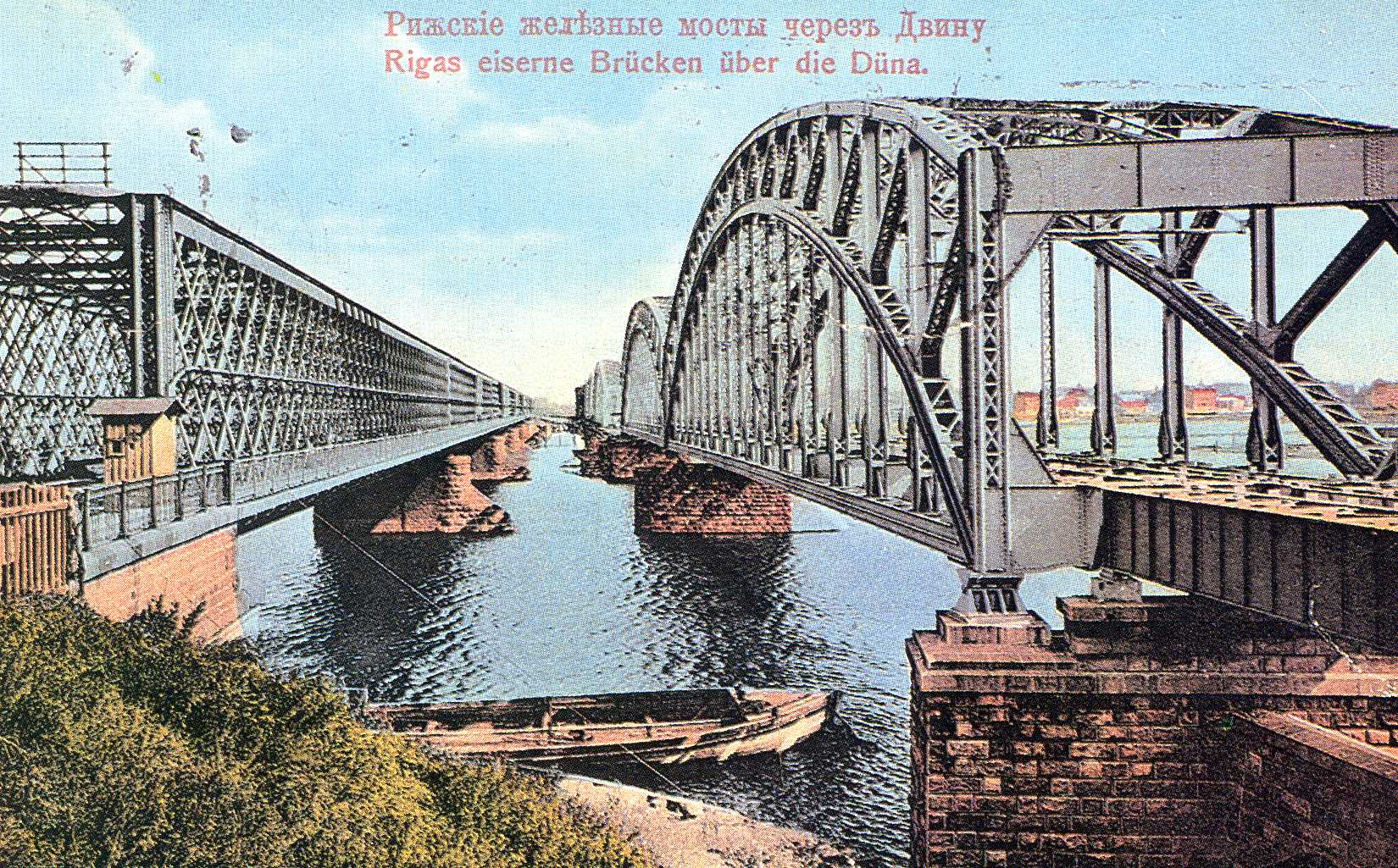 Riga. Railway bridges over North Dvina. Russian Empire postcard.